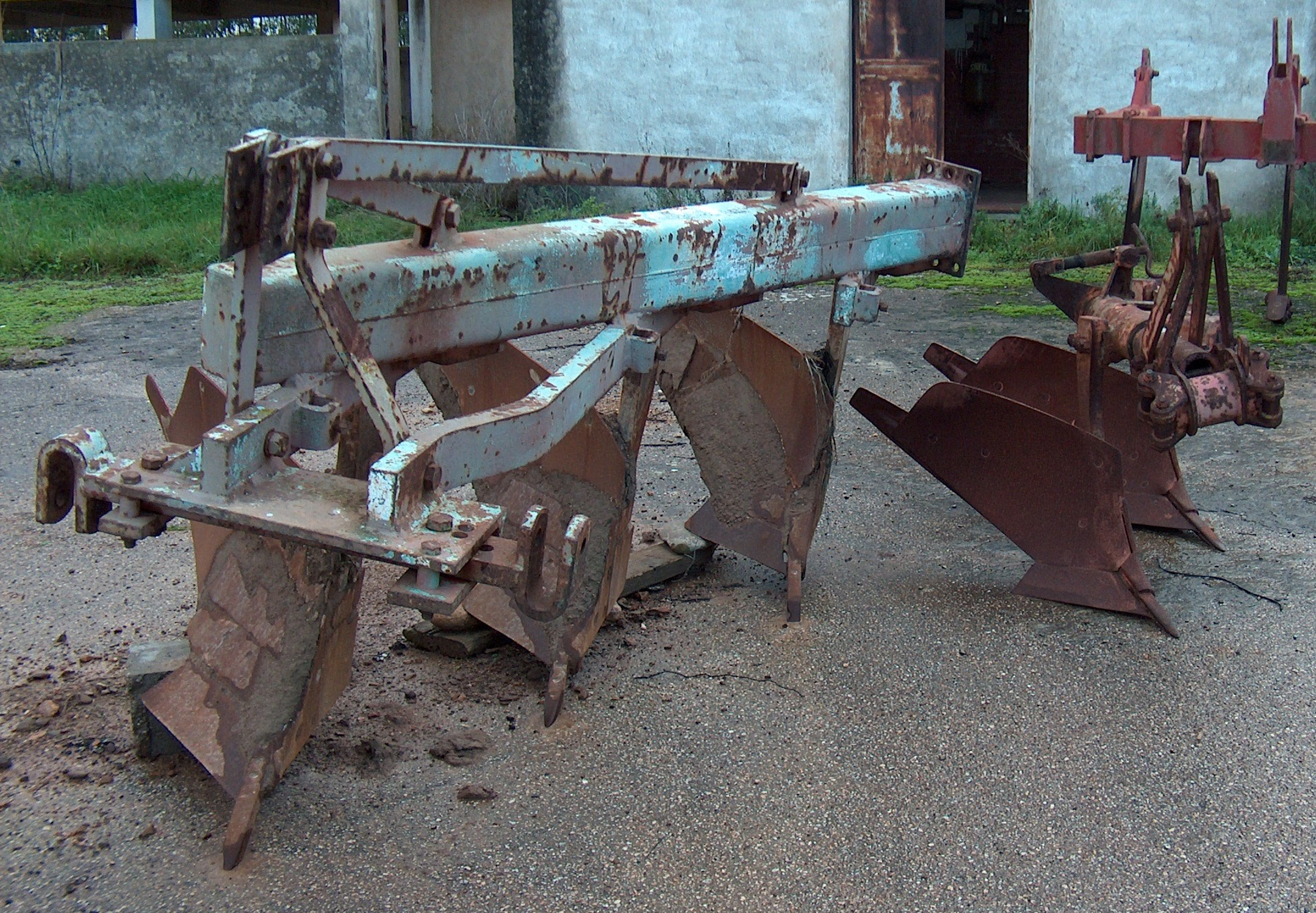 Ploughs – Professional Institute of Agriculture and Environment "Cettolini" of Cagliari (Sardinia, Italy) – Associated School of Villacidro (Sardinia, Italy)